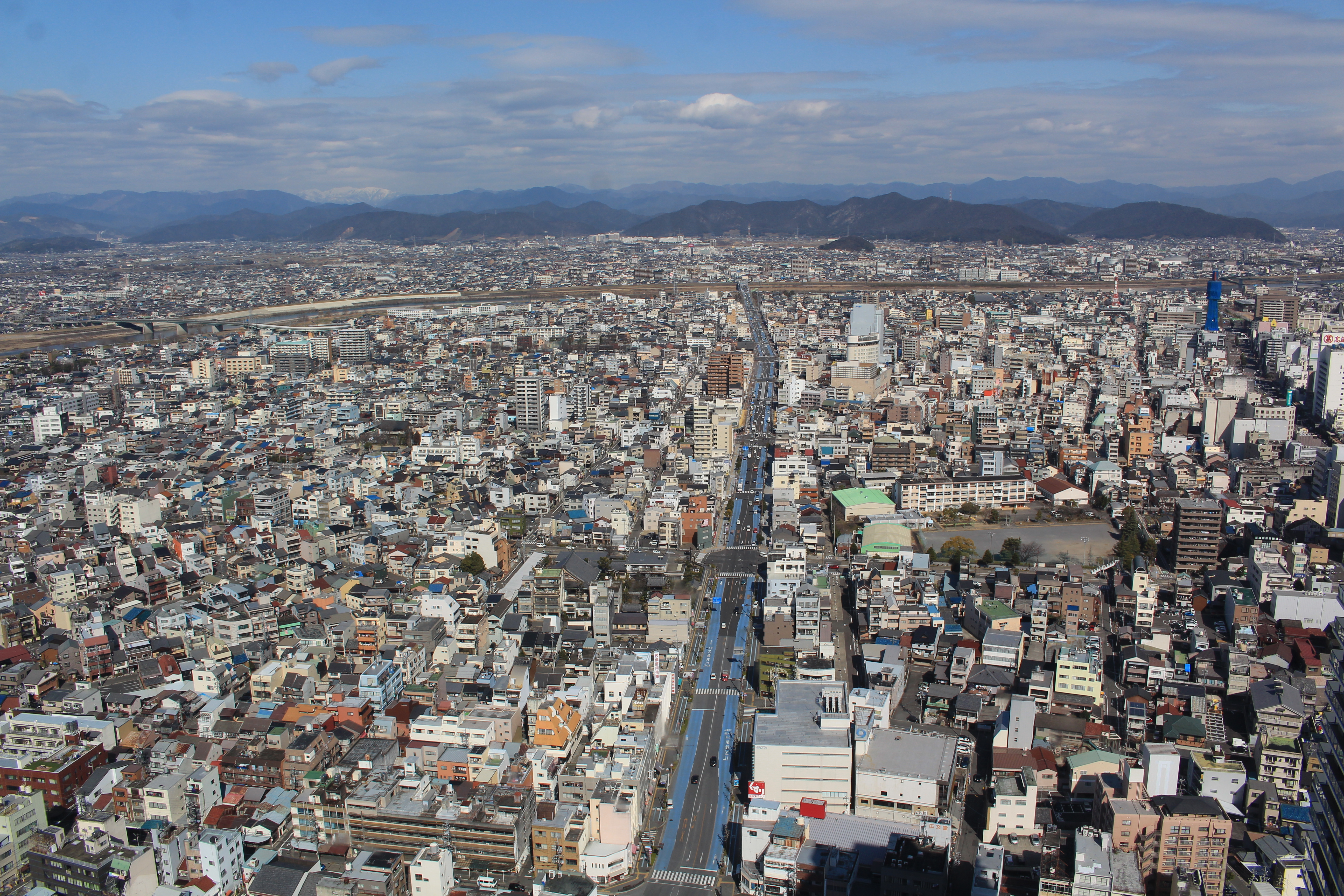 Chusetsubashi dori seen from Gifu City Tower 43 in Gifu city, Gifu prefecture, Japan.